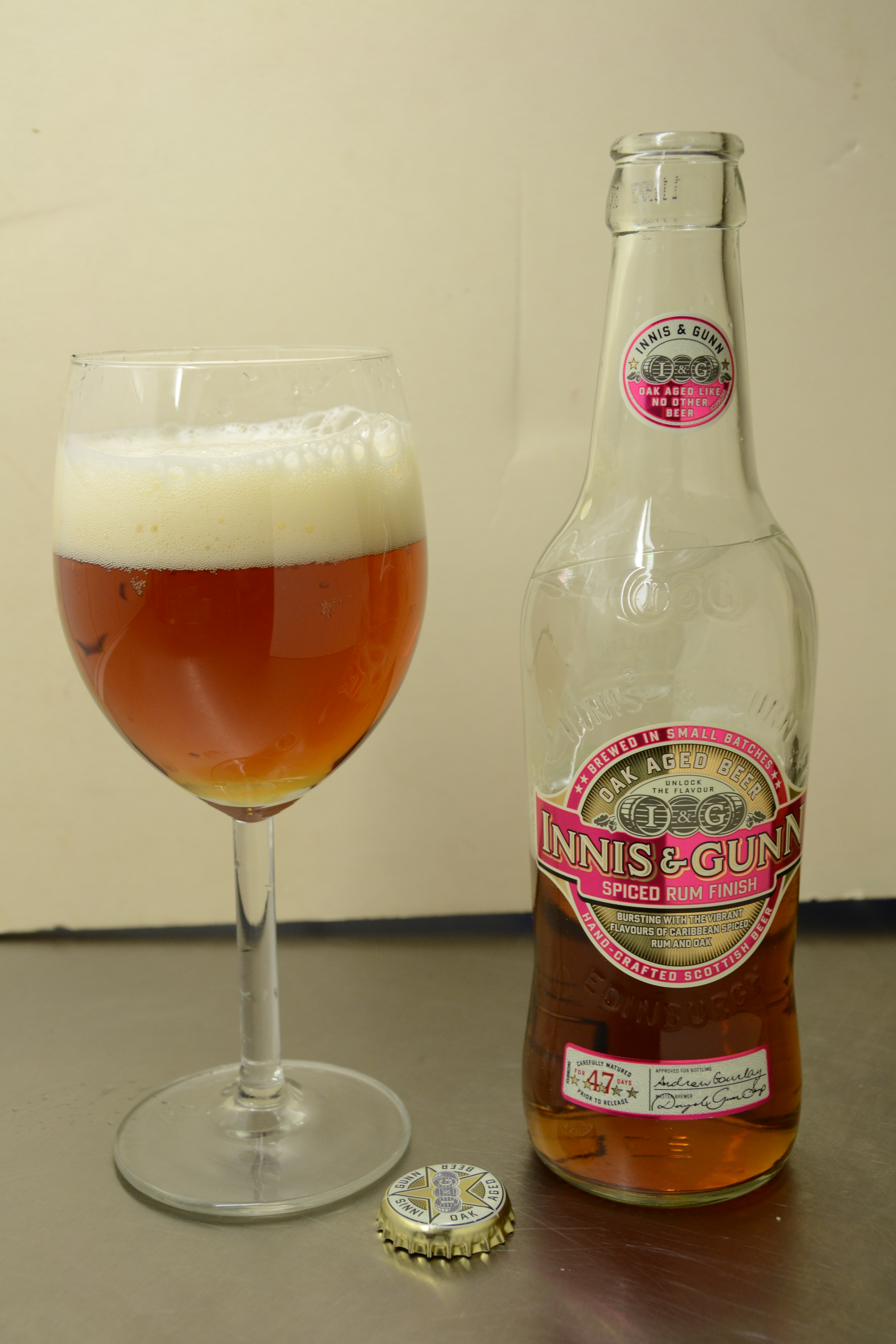 Innis & Gunn, Spiced Rum FInish, limited edition on sale october 2011